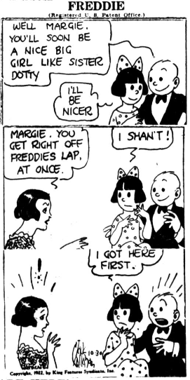 "Freddie" daily strip by Jack Callahan. October 30, 1922. Copyright 1922, King Features Syndicate, Inc.